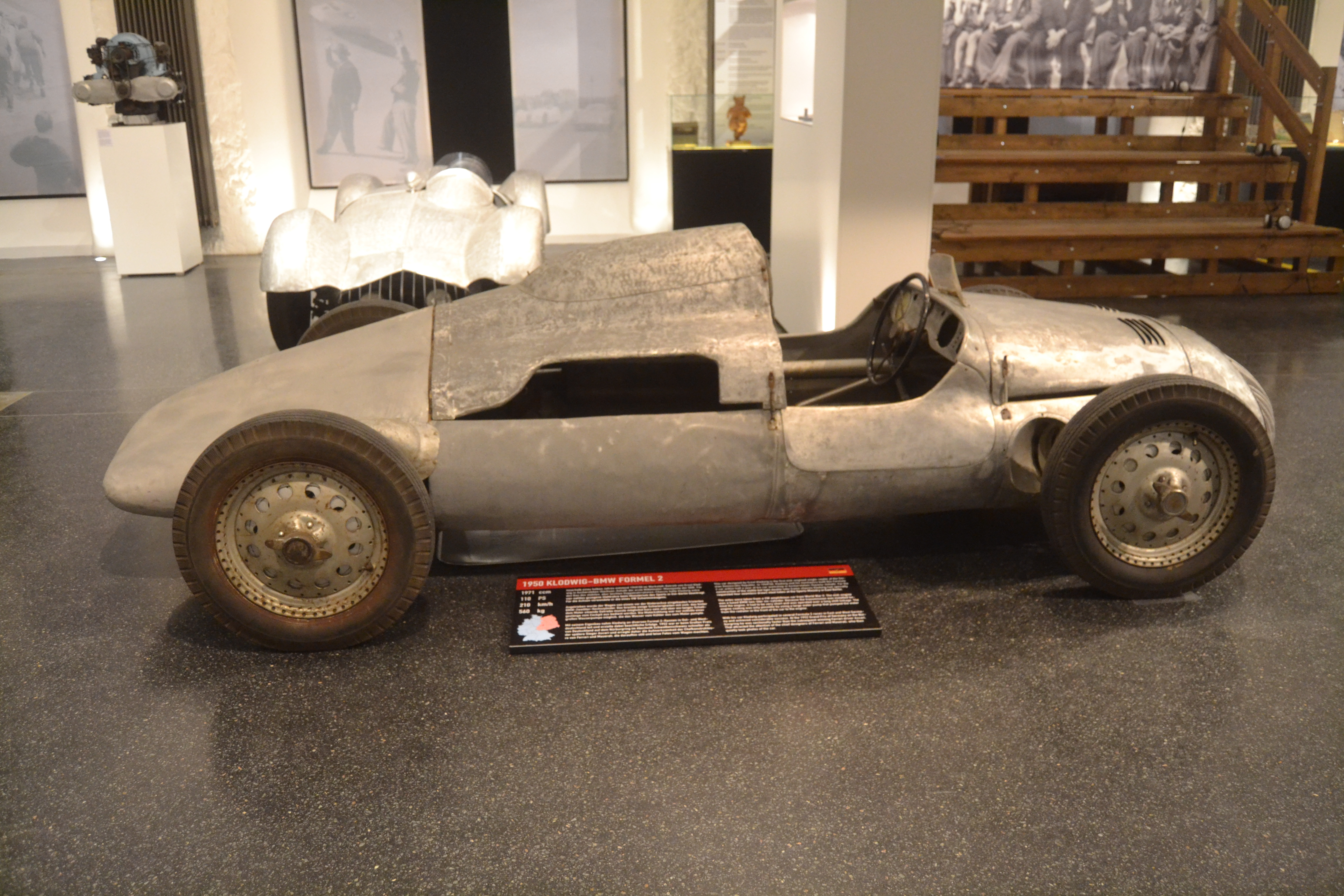 Klodwig-BMW Formula 2 Special (1950)